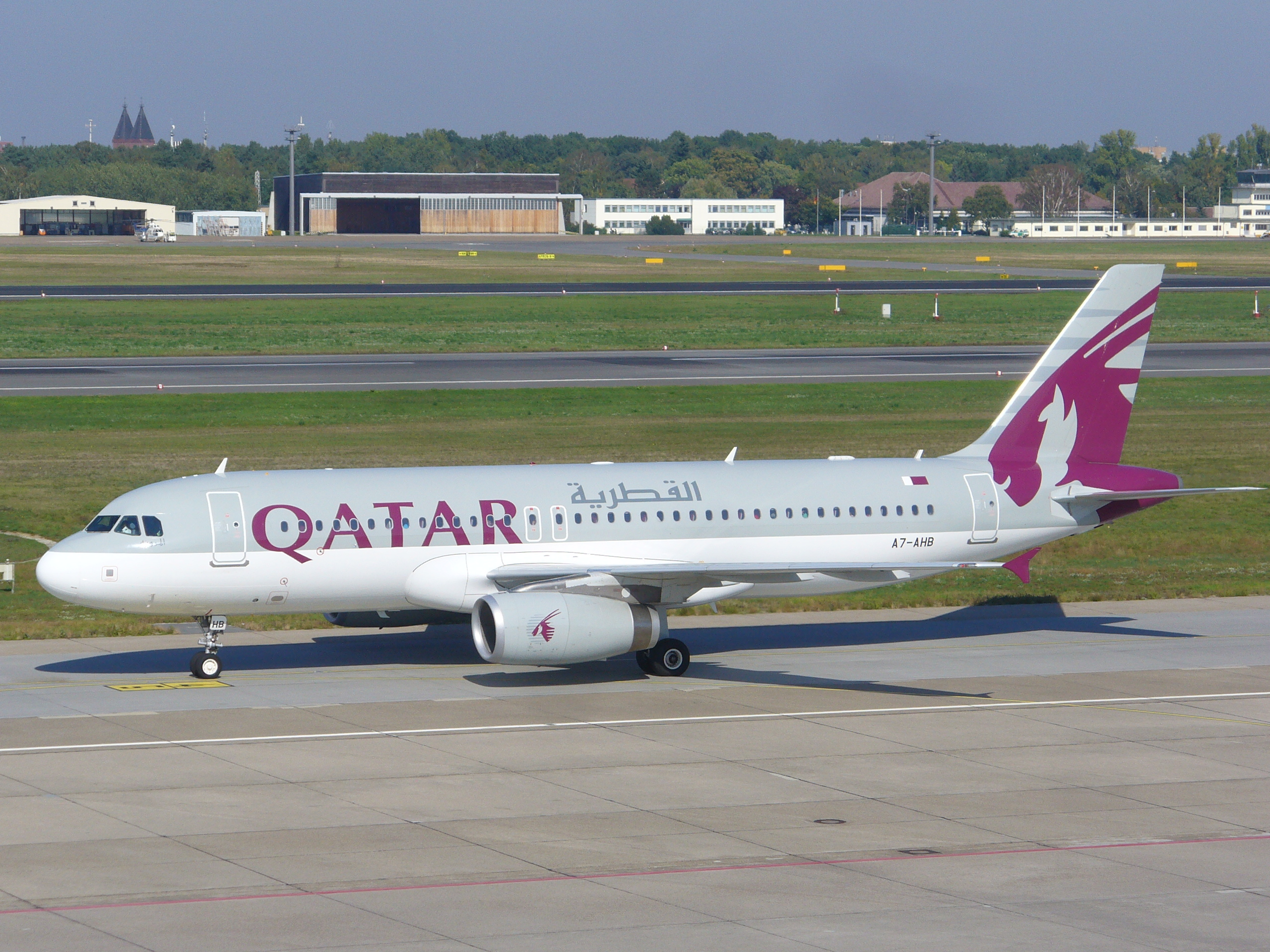 A Qatar Airways Airbus A320-200 taxiing at Berlin-Tegel Airport